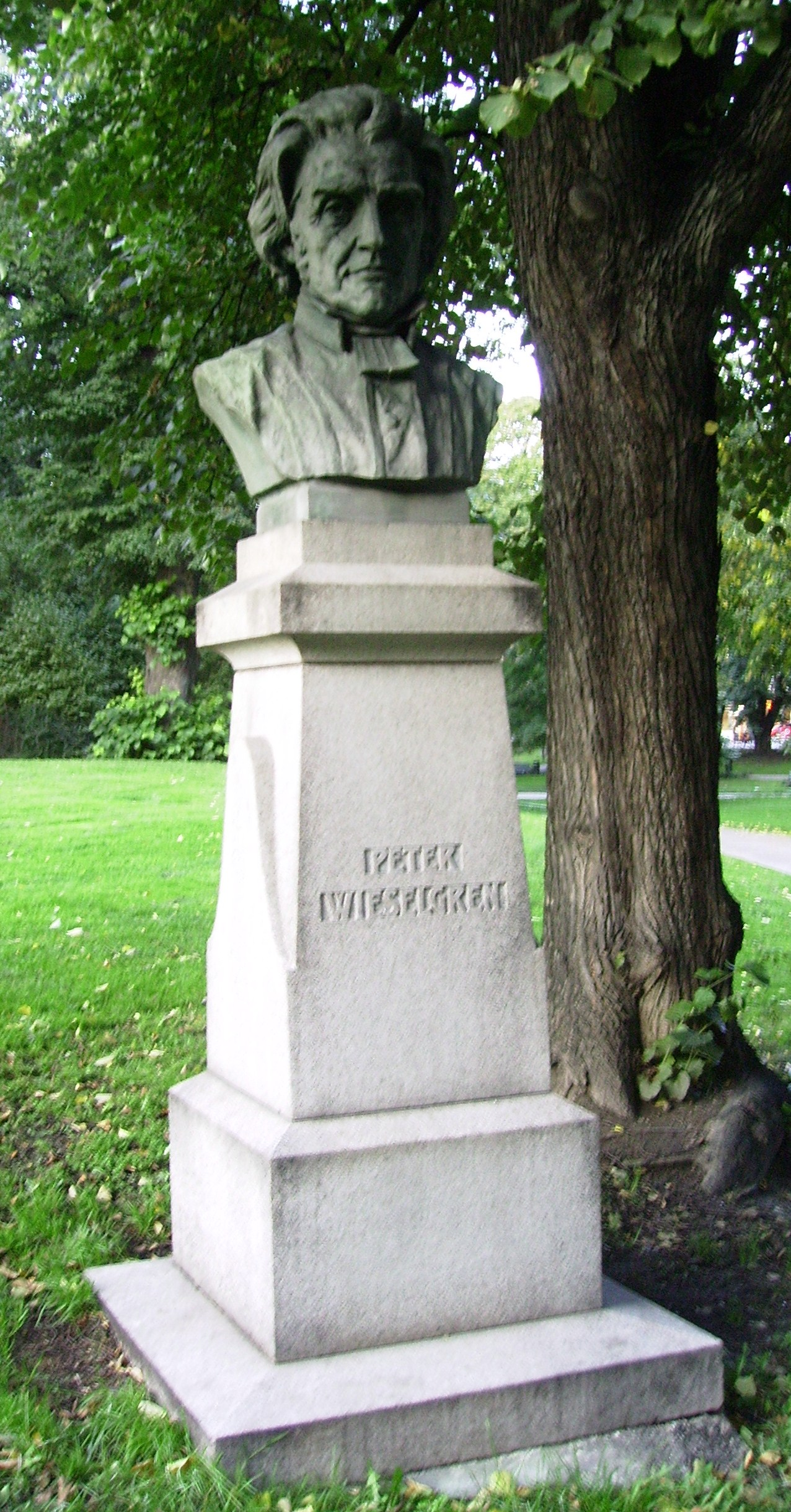 Picture of statue of Peter Wieselgren, made by Gustaf Malmqvist 1840